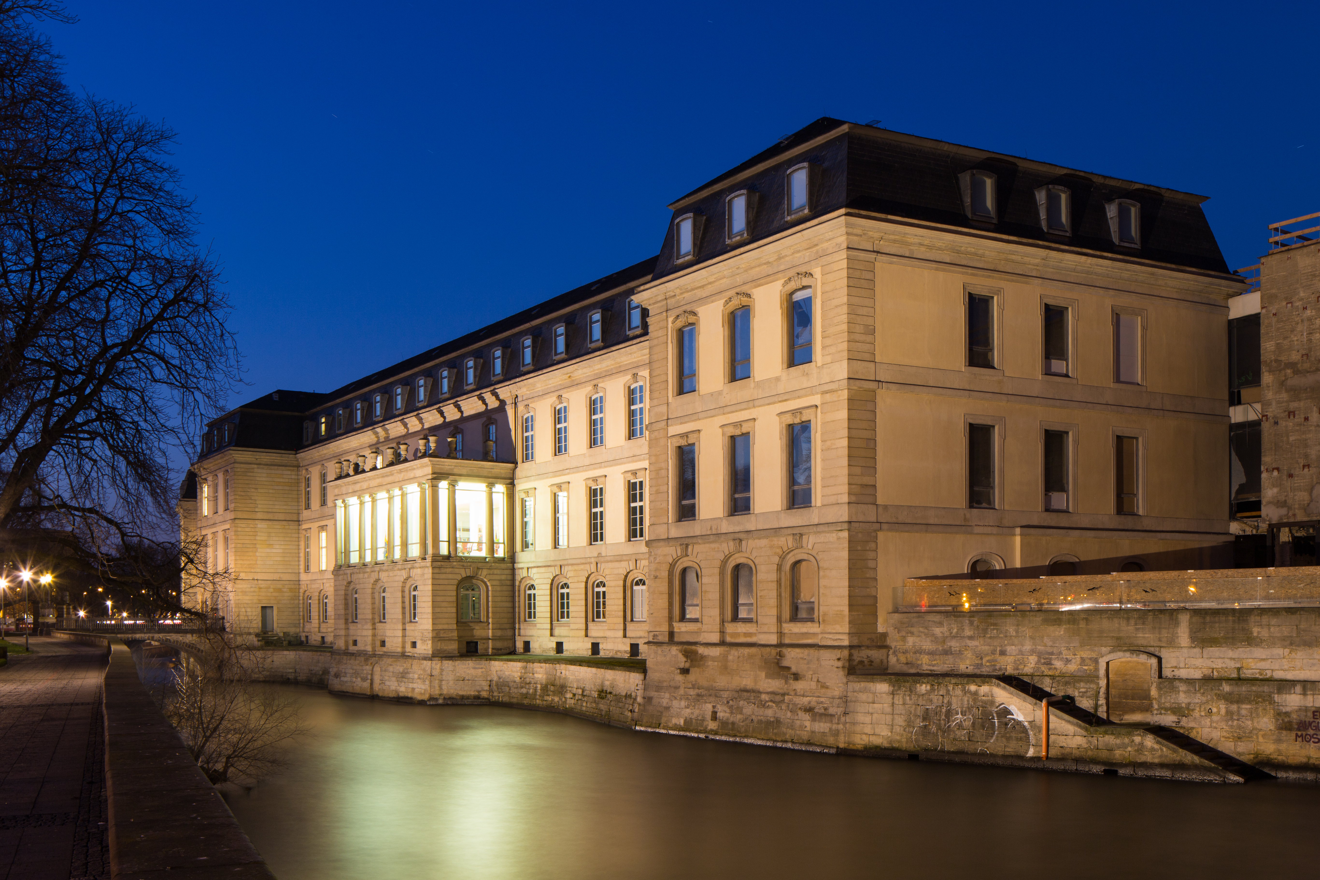 Rear view of Leineschloss parliament building with Leine river in the foreground. The building is located at Leinstrasse in Mitte district of Hanover, Germany.